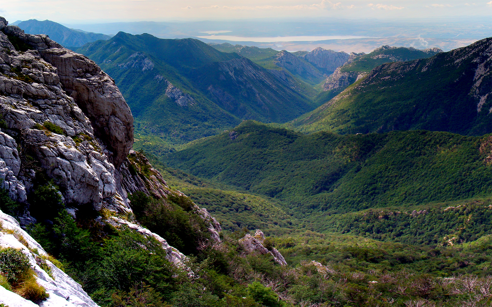 Interior of Paklenica, view from Buljma pass (1380m)